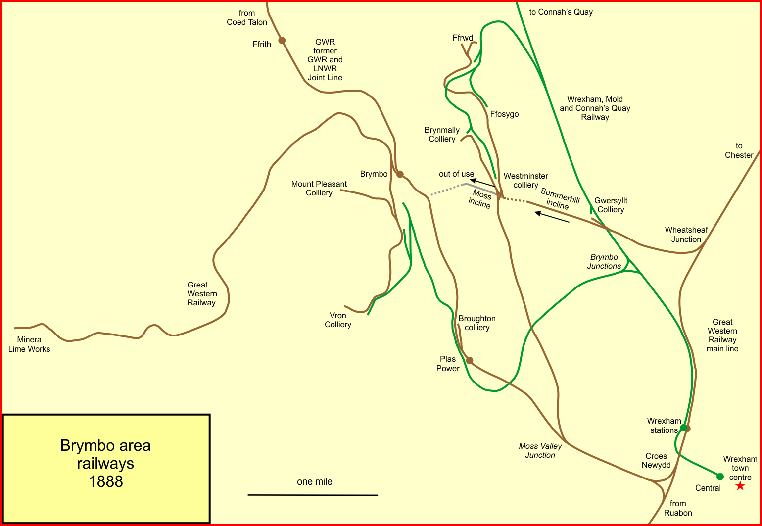 System map of the Railway lines around Brymbo, Wales, in 1888